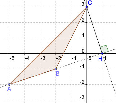 height of a triangle